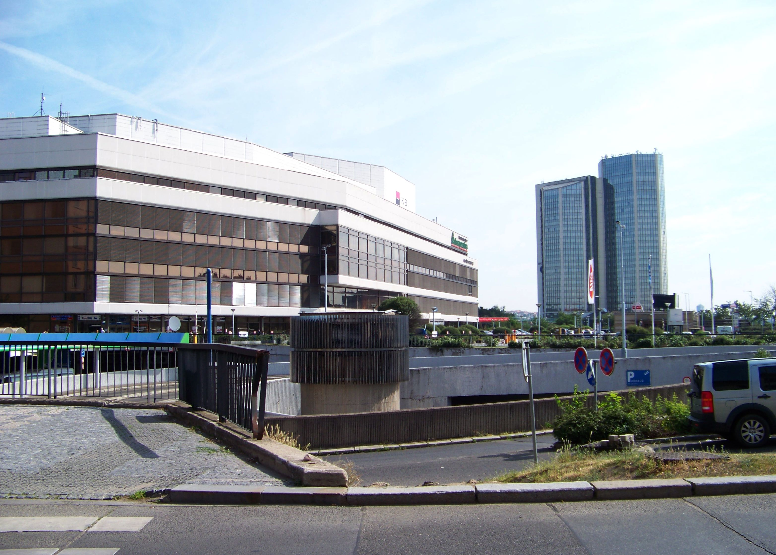 Prague-Nusle-Pankrác, the Czech Republic. Na Pankráci street, Prague Congress Centre an Hotel Corinthia Tower.